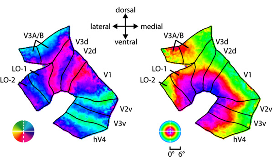 Left hemisphere retinotopic maps of subjects S5 and S9, and averaged across 15 hemispheres